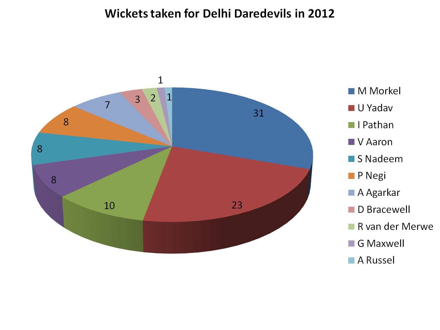 Player-wise overview of wickets taken for Delhi Daredevils (DD) in 2012